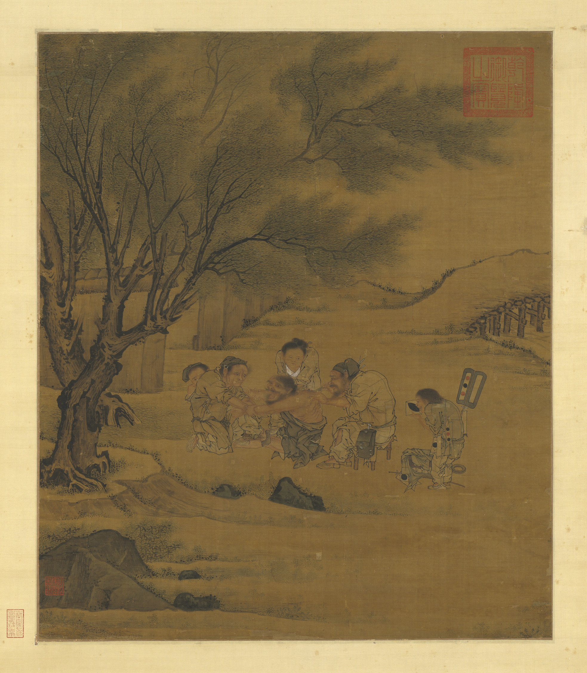 The painting depicts an itinerant doctor conducting moxibustion on a patient, while three people are restraining the patient and the doctor's assistant on the right is preparing a medicinal patch.